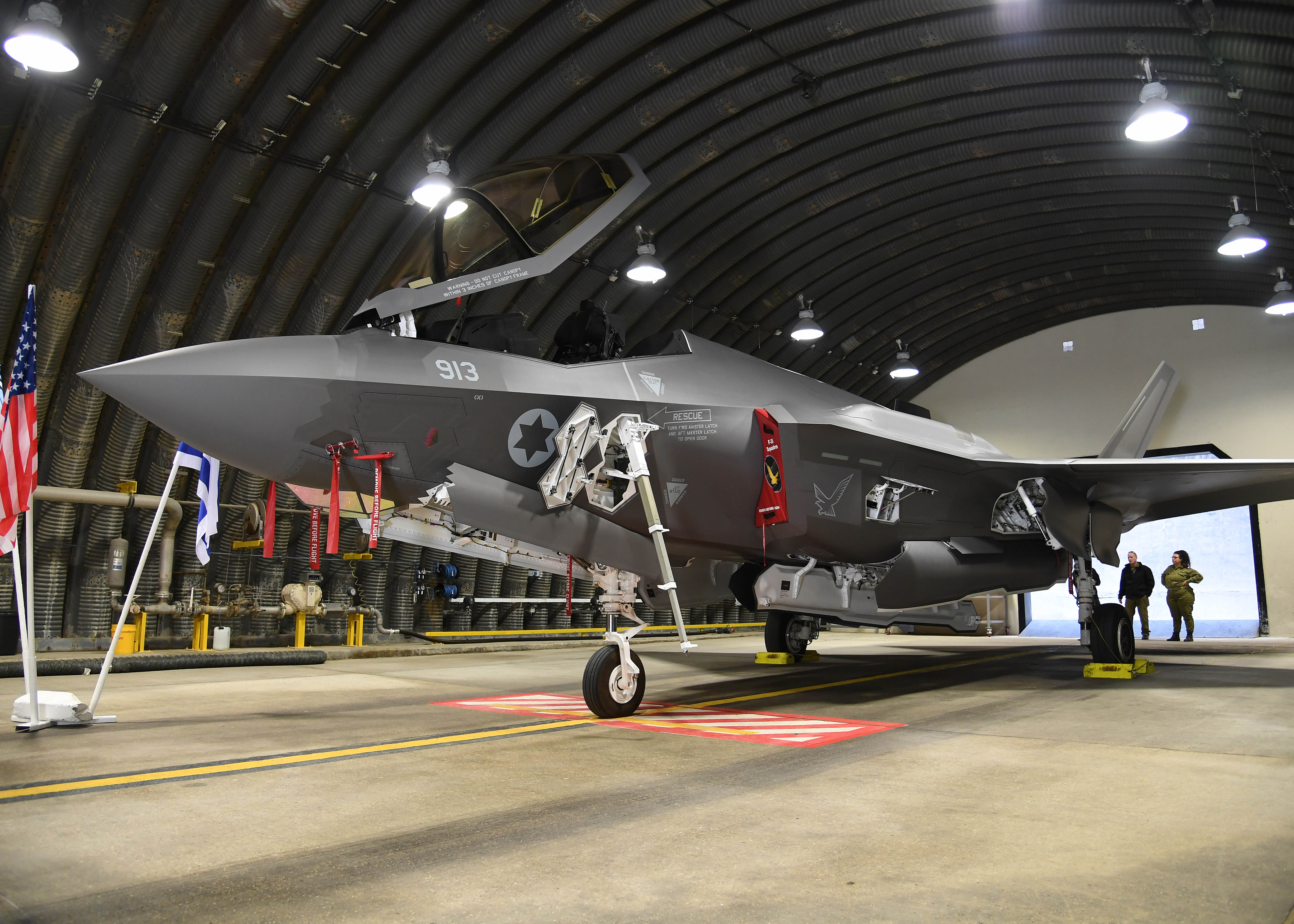 Ambassador David Friedman visited Nevatim Air Base in Southern Israel and toured the Israeli Air Force squadron operating the F-35i “Adir,” Monday, December 11, 2017. He was accompanied by commander of the base Brig. Gen Eyal Greenbaum and Squadron Commander “Y”. Photo credit: David Azagury U.S. Embassy Tel Aviv